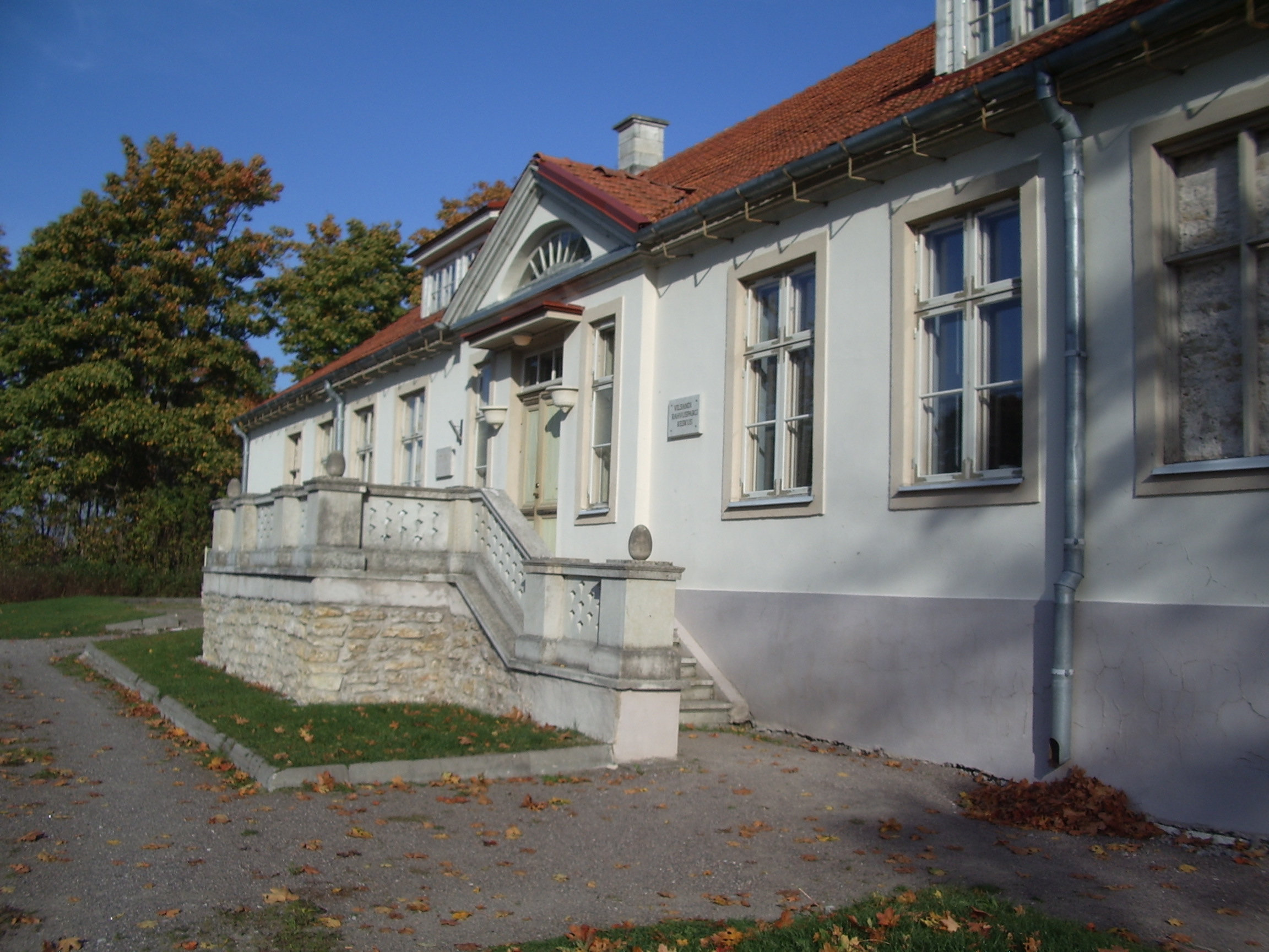 Loona manor, centre of Vilsandi National Park, Kihelkonna Commune, Saare County, Estonia